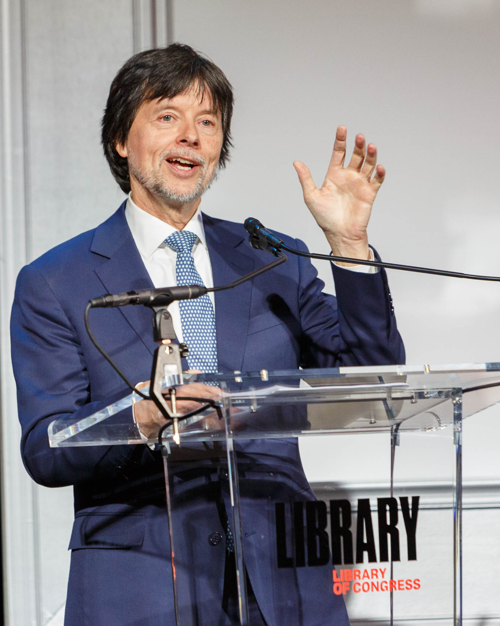 Filmmaker Ken Burns speaks at the gala ceremony for the inaugural Library of Congress Lavine/Ken Burns Prize for Film, October 17, 2019. Photo by Shawn Miller/Library of Congress. Note: Privacy and publicity rights for individuals depicted may apply.